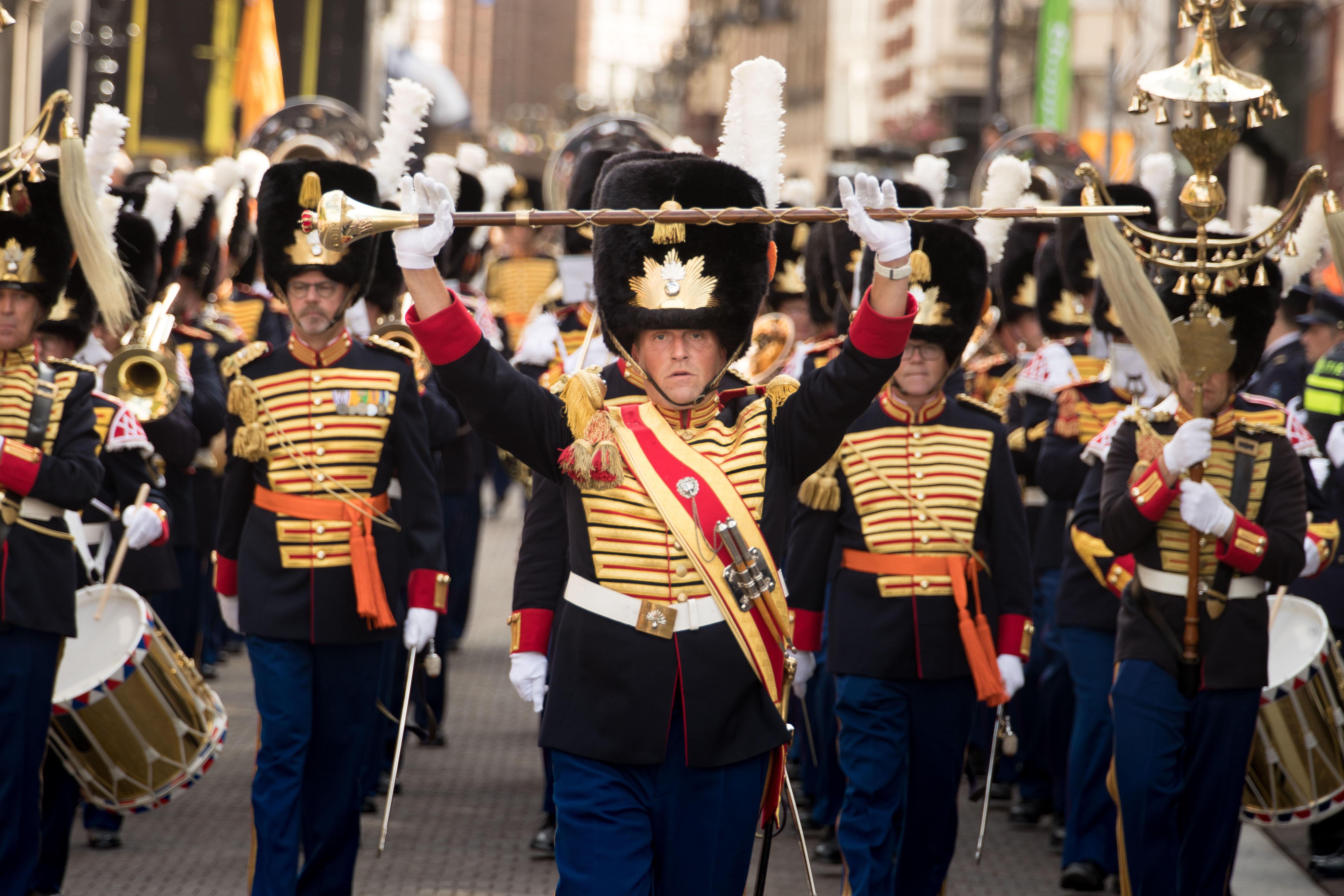 Den Haag, 19 september 2018, Prinsjesdag vanuit het Paleis Noordeinde.